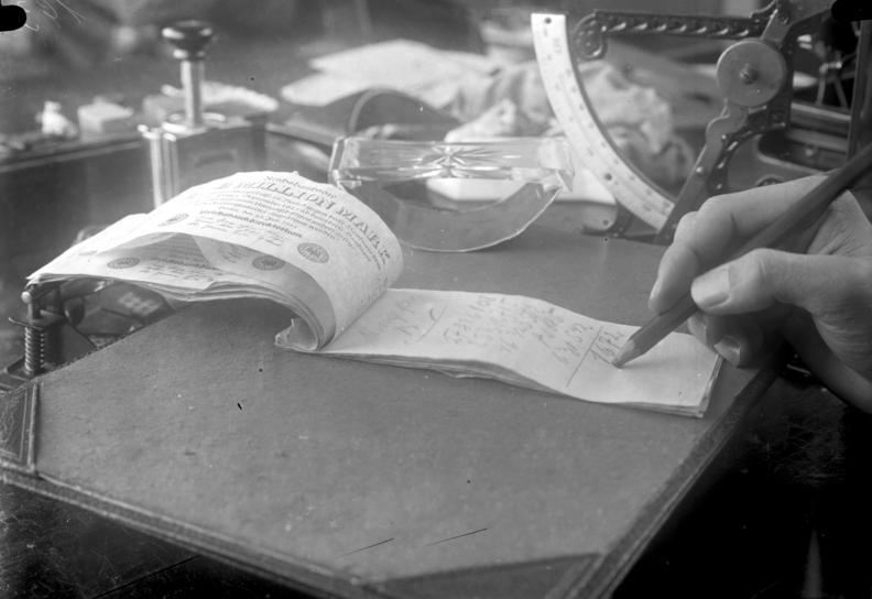 Ein Million-Markschein als Rechnungsblock. Findige Leute benutzen die Rückseite des Einmillionenscheines zum Schreiben; ein neuer Block würde Milliarden kosten. EN: A one million mark note used as a notepad. Resourceful people used the back of the 1m mark notes to write notes; a notepad would cost billions.